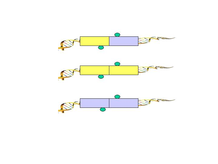 Science